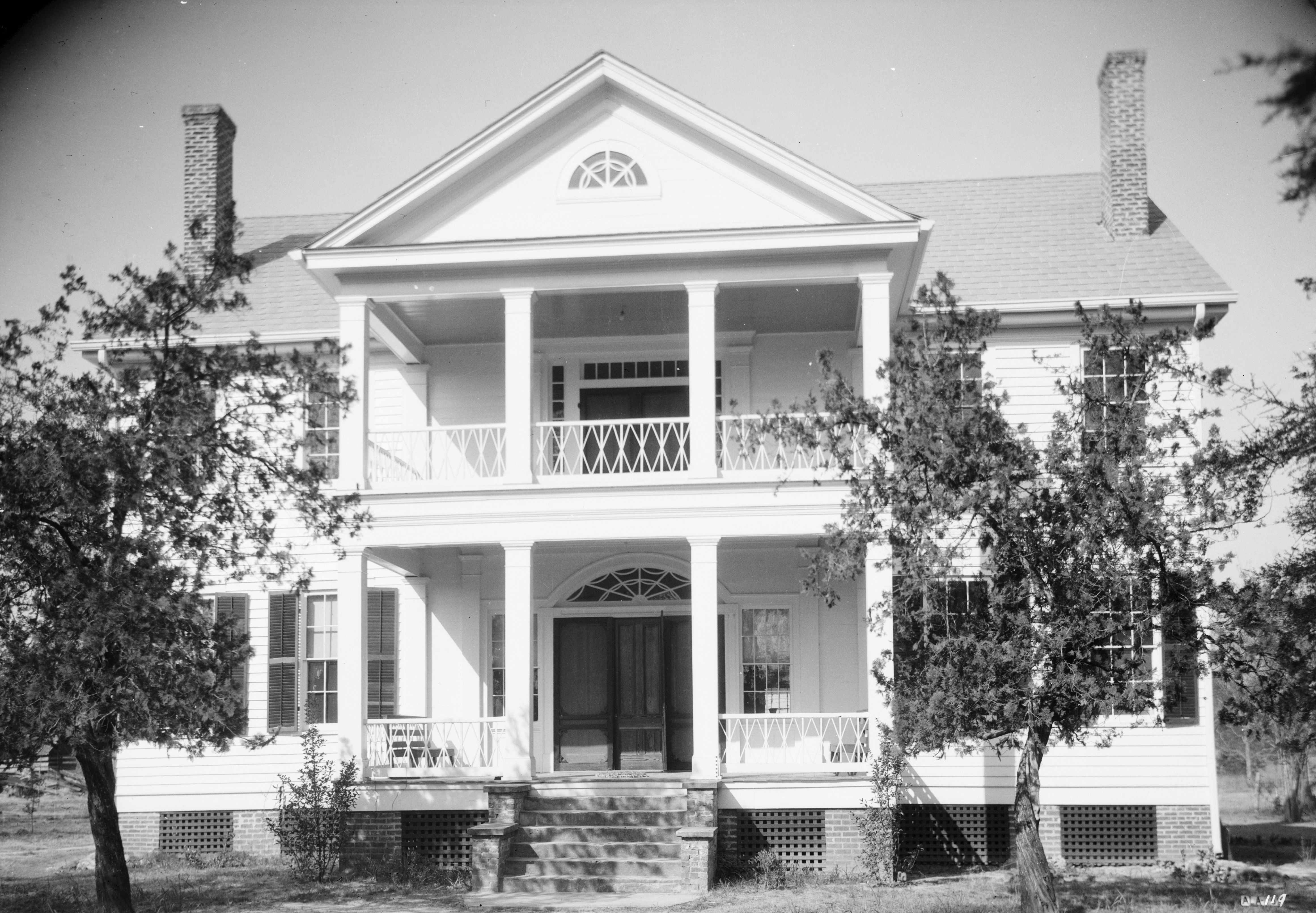 Colonel Joseph R. Hawthorne House, Broad Street (County Road 59), Pine Apple, Wilcox County, AL. CENTRAL FRONT ELEVATION.